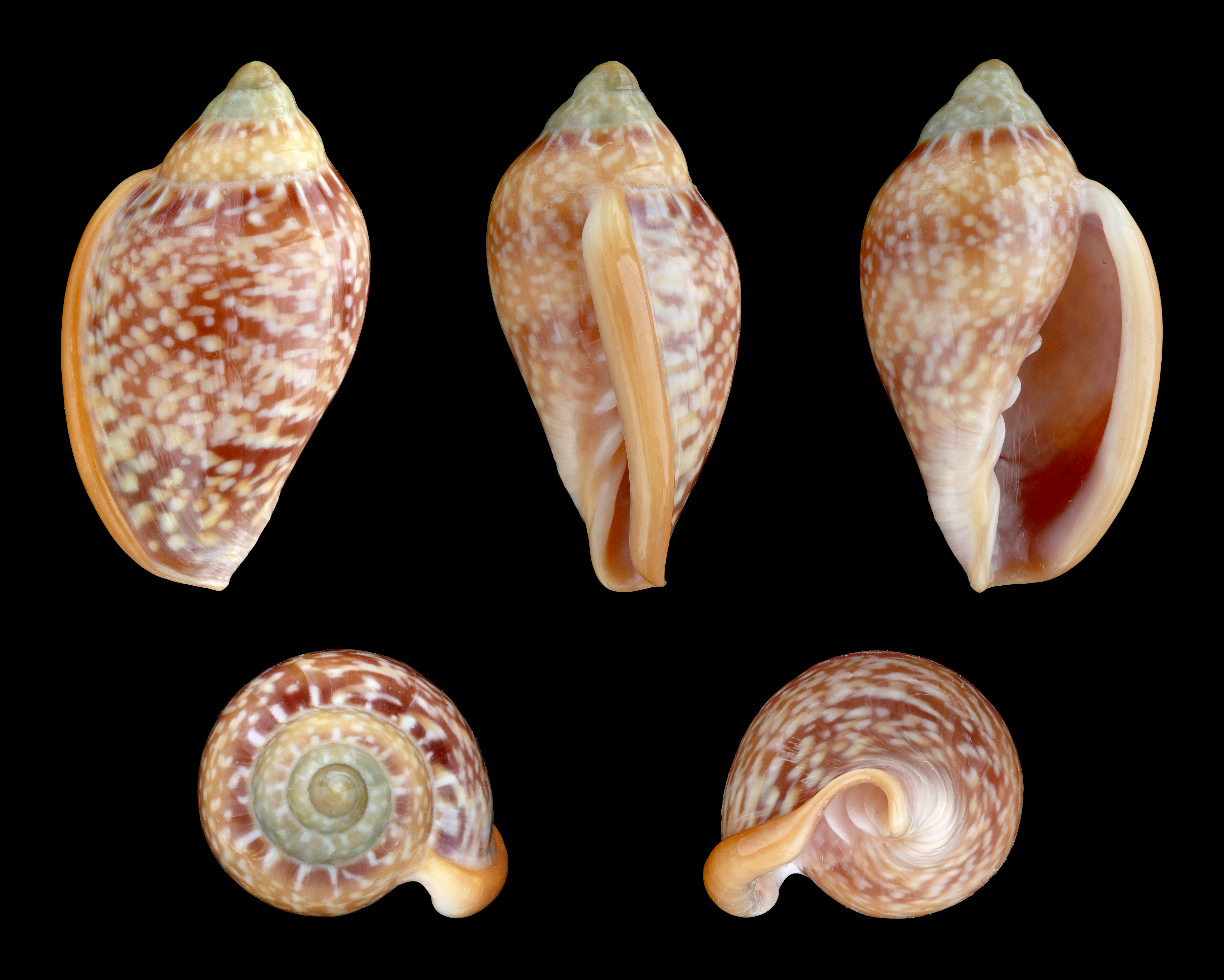 Shiny Marginella; Length 2.8 cm; Originating from Morocco; Shell of own collection, therefore not geocoded. Dorsal, lateral (right side), ventral, back, and front view.